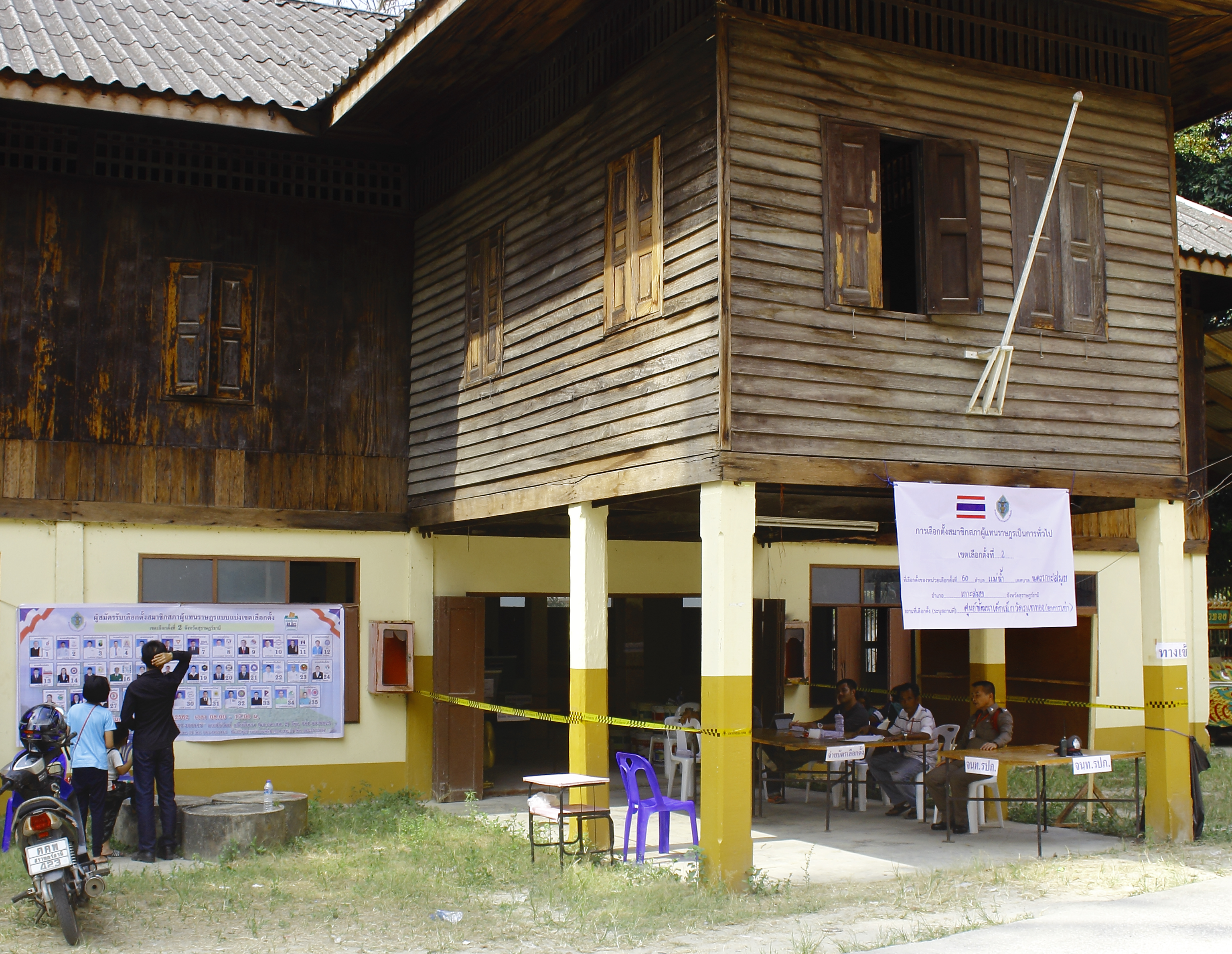 Thai general election 2019, polling station (Koh Samui)